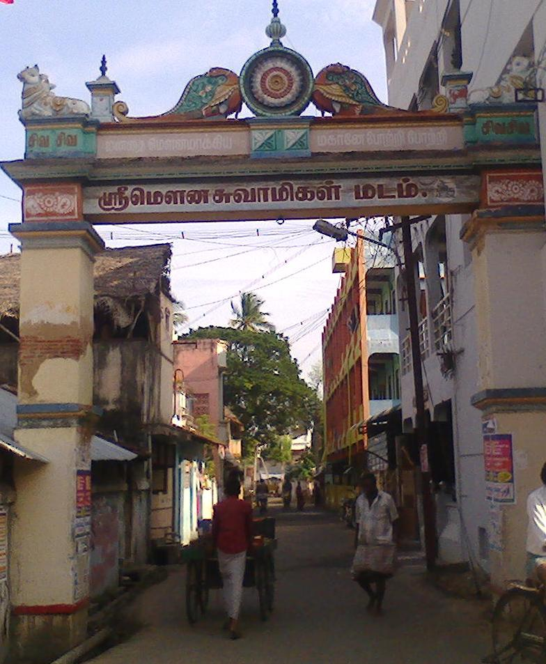 Mounasamy mutt entrance கும்பகோணம் மௌனசுவாமி மடம்